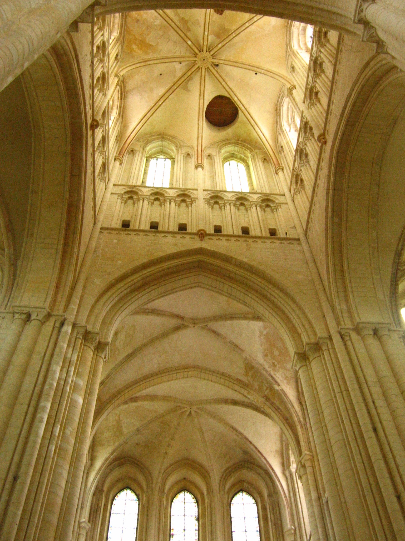 Abbey church of Fécamp, Seine-Maritime